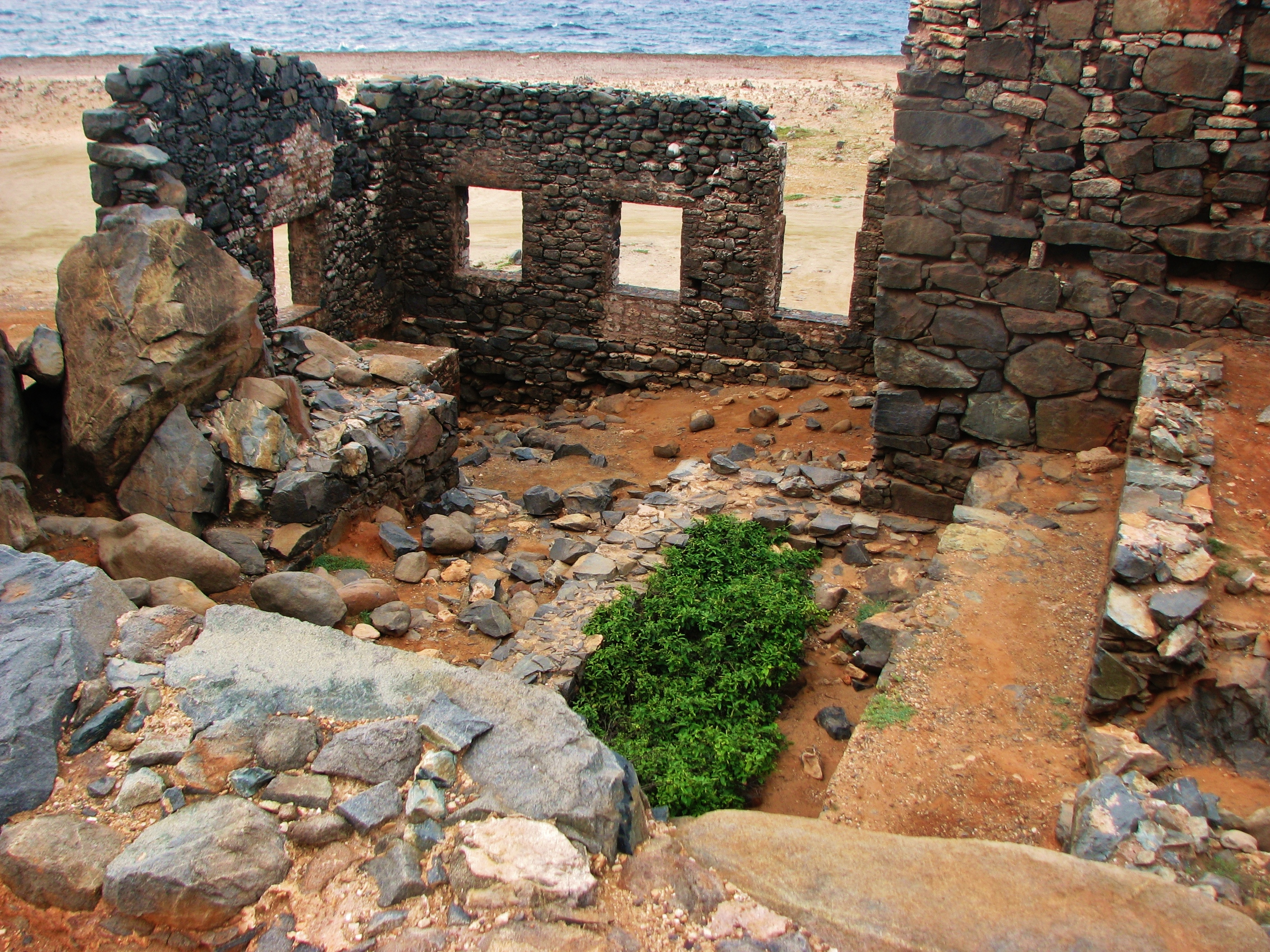 Ruine at Bushiribana